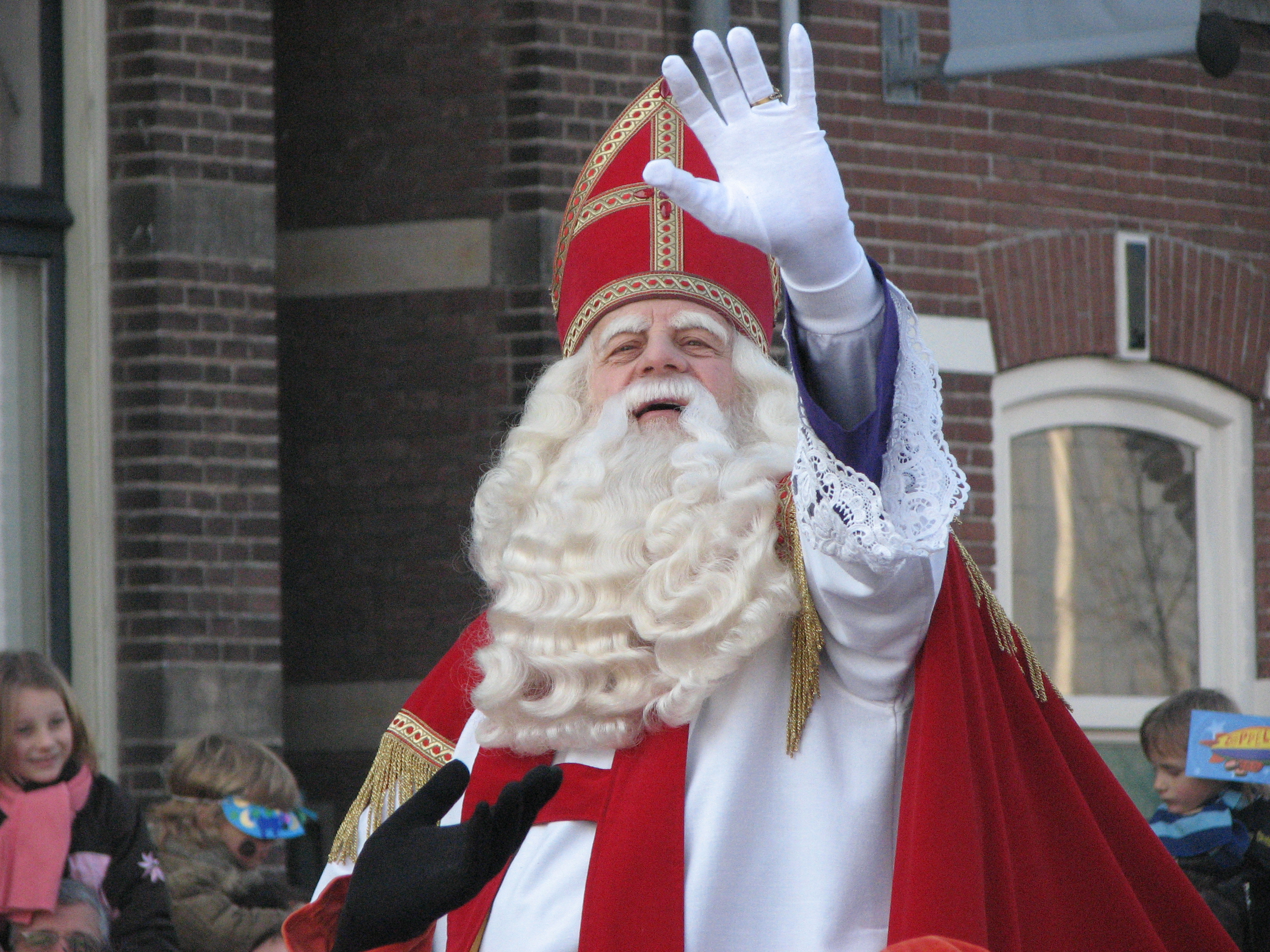 Sinterklaas arrives.